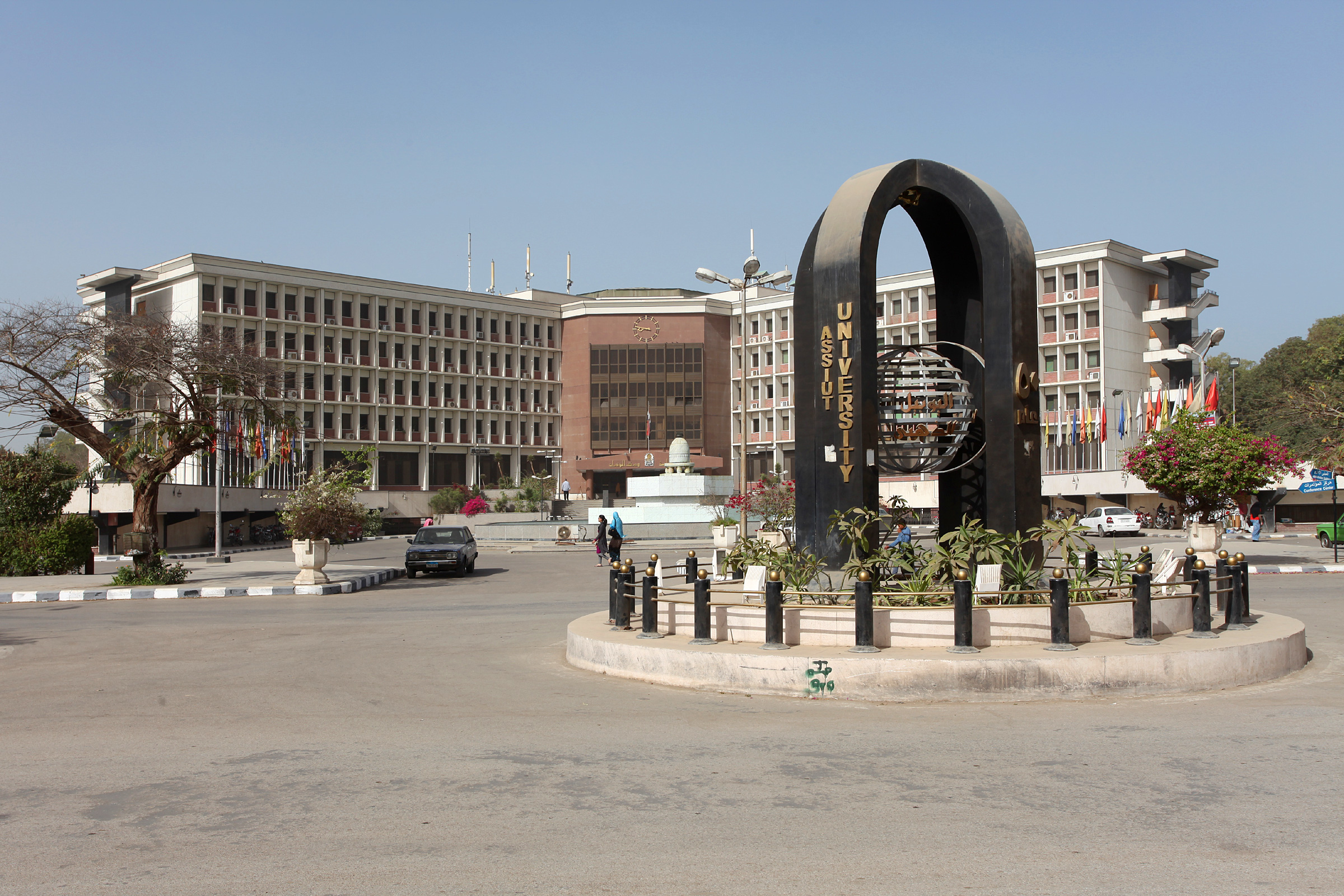 Main building of the Asyut University